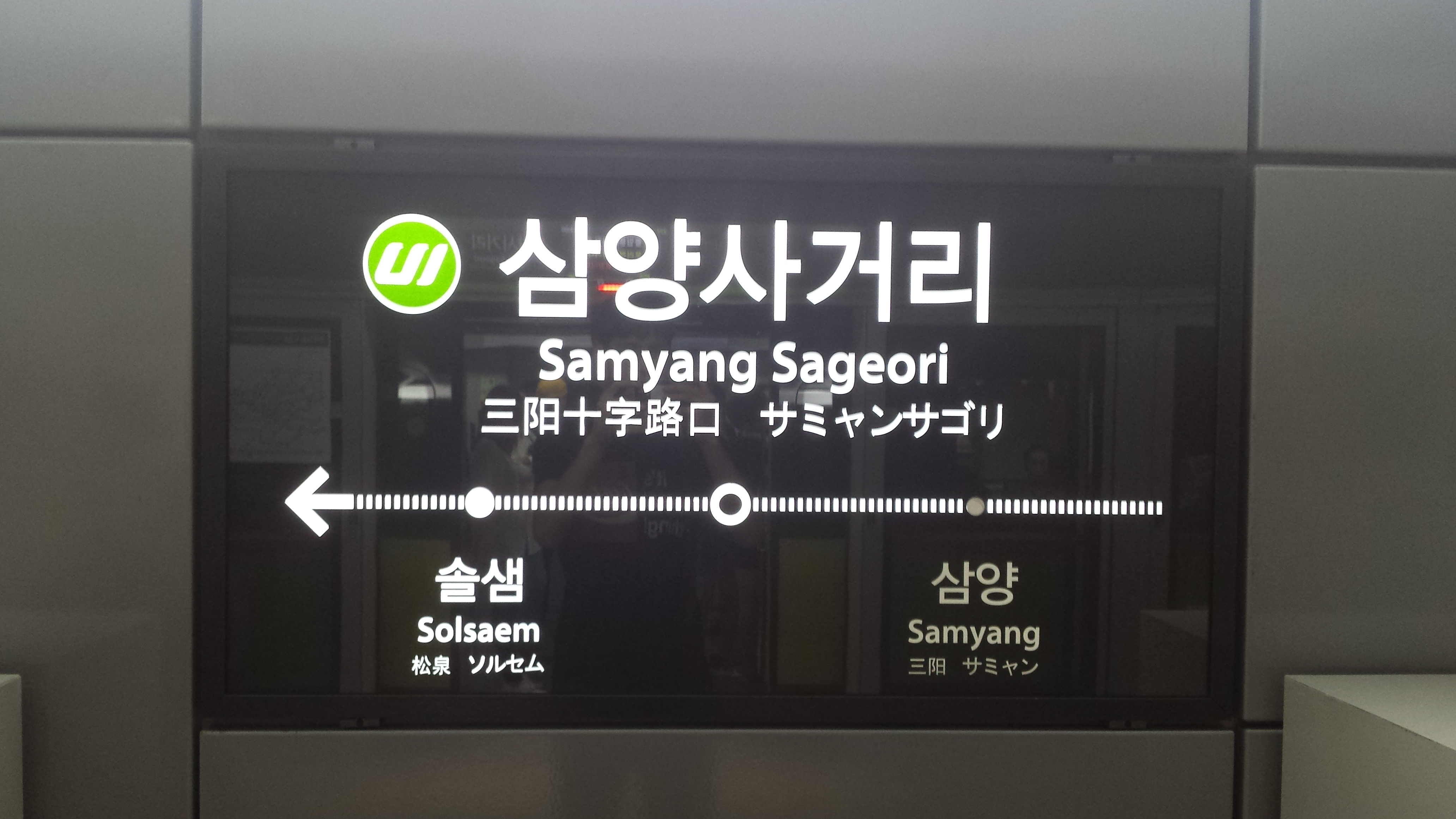 Samyangsageori station sign